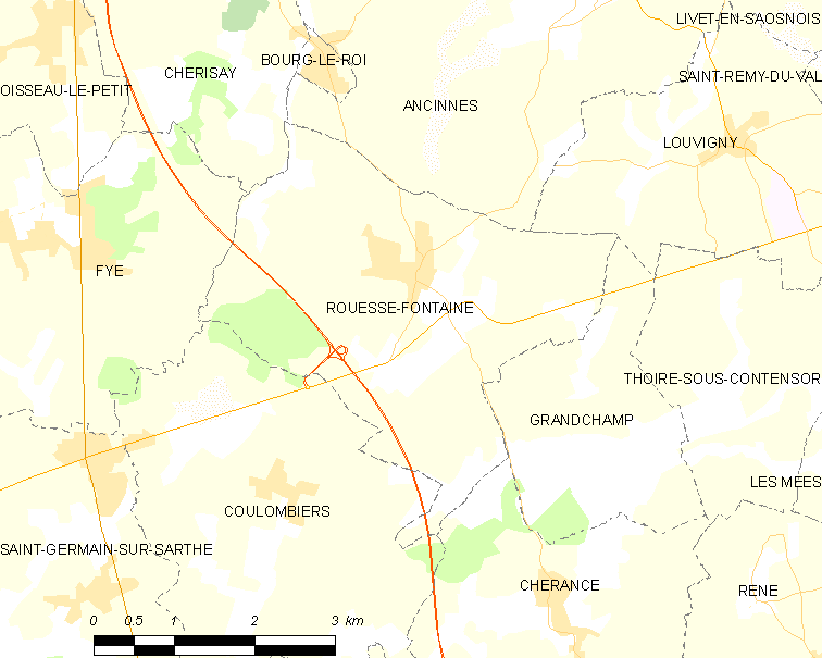 Map of French municipality